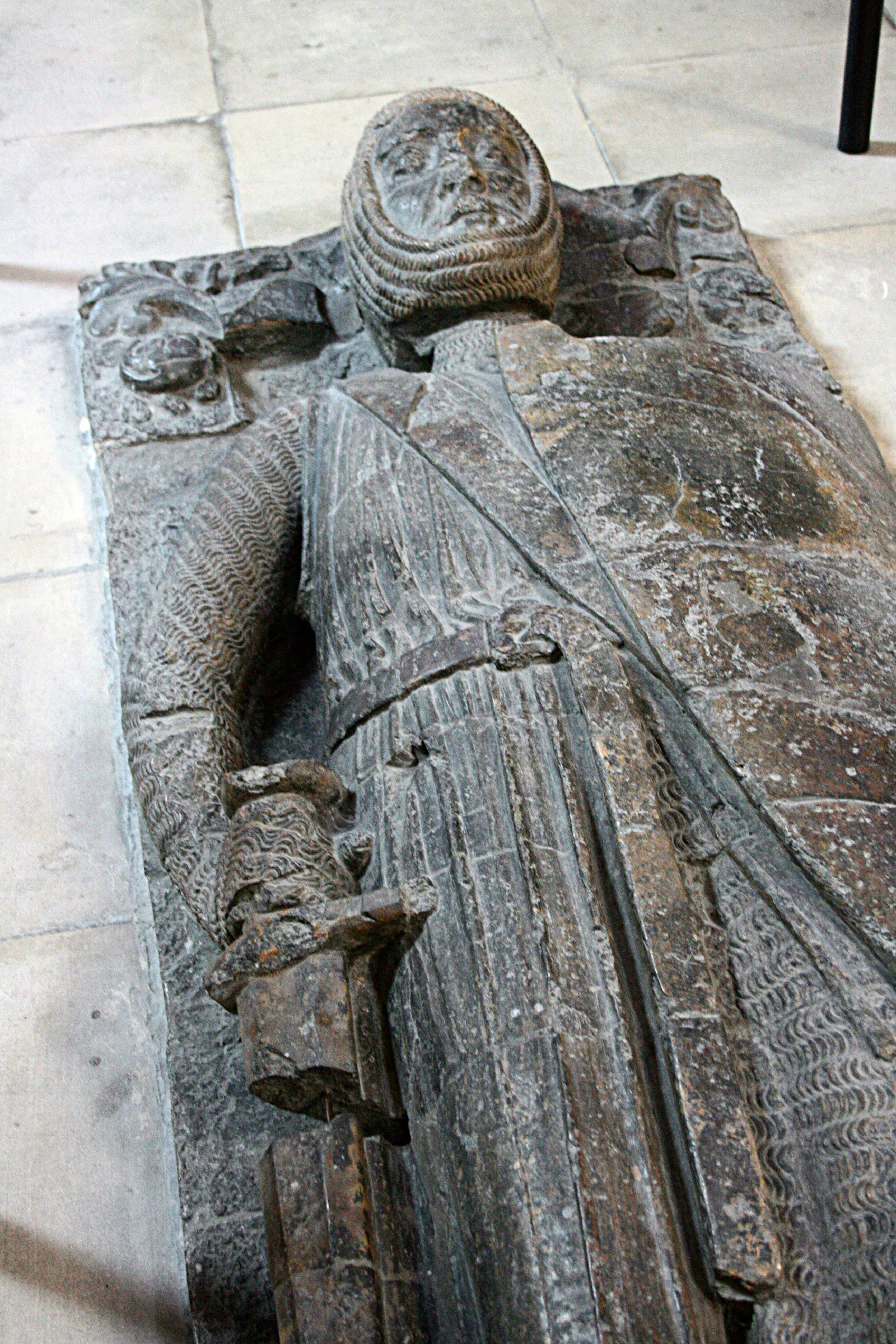 Temple Church, Temple, London EC4, effigy of William Marshal, 1st Earl of Pembroke, on the south side of the Round Church